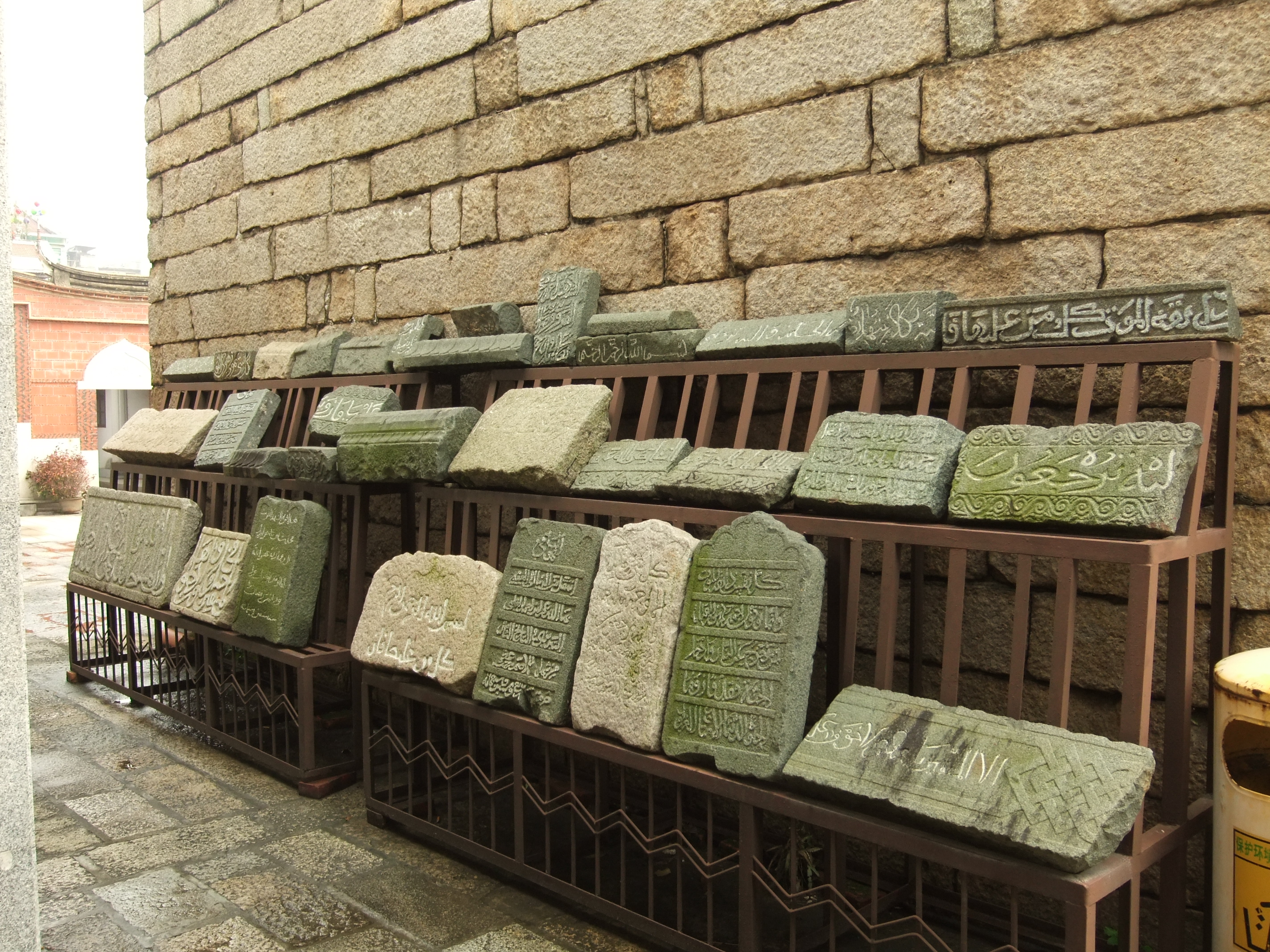 Qingjing Mosque, a.k.a. Ashab Mosque, the main mosque of Quanzhou.